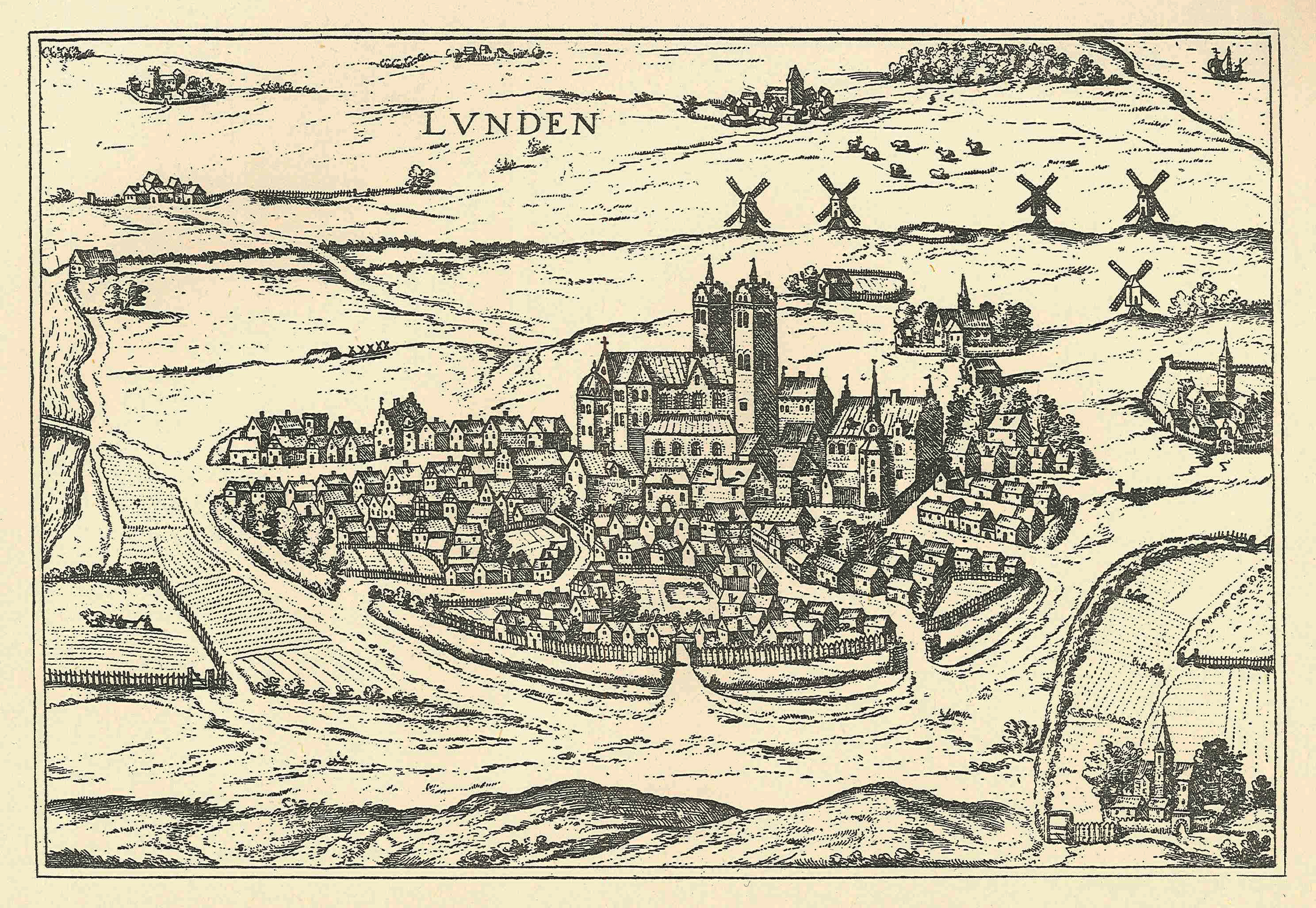 The city of Lund in the 1580s; engraving from volume 4 av of Civitates orbis terrarum (1588).